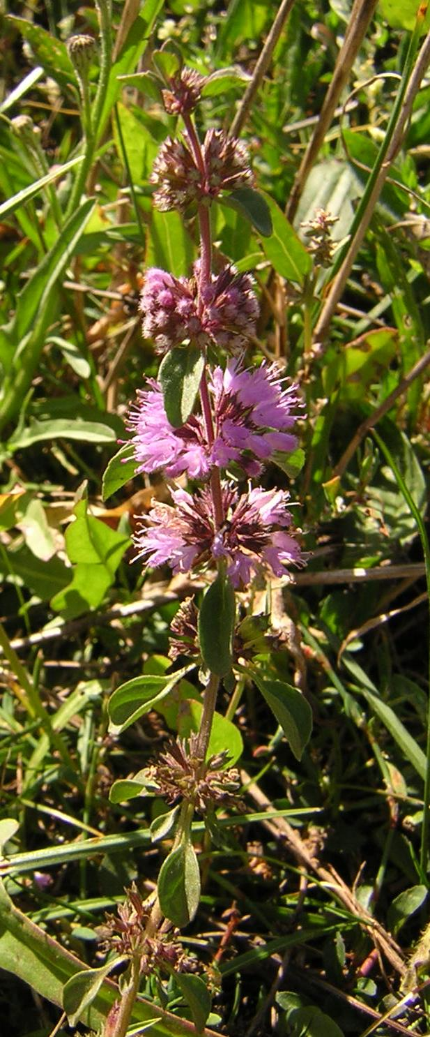 Mentha pulegium Angers (France) Source : [1]